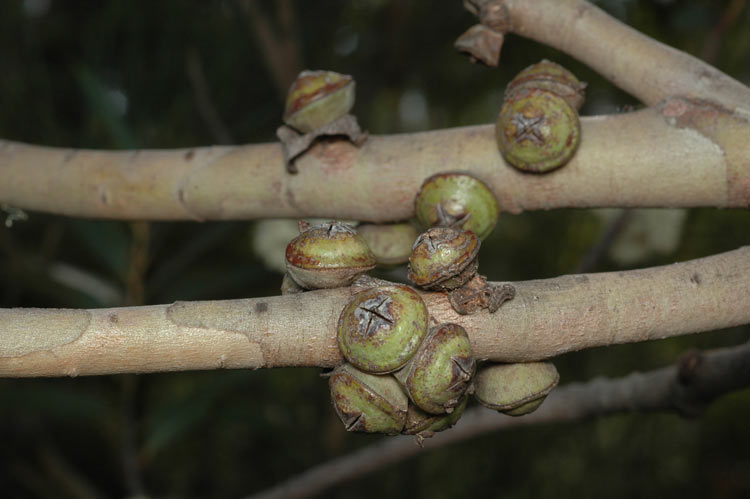 Fruit of Eucalyptus deuaensis in the Australian National Botanic Gardens